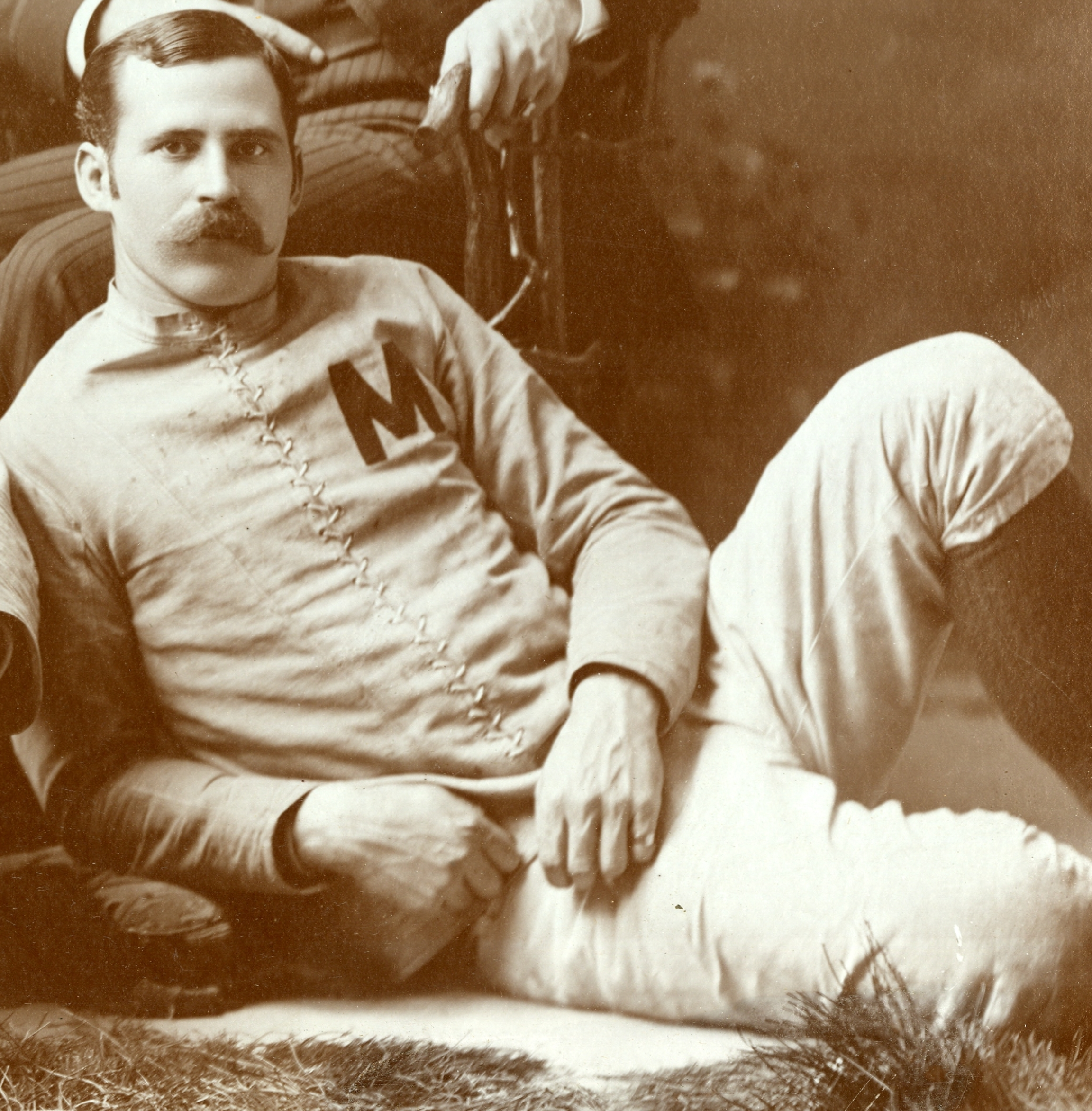 Photograph of Horace Prettyman